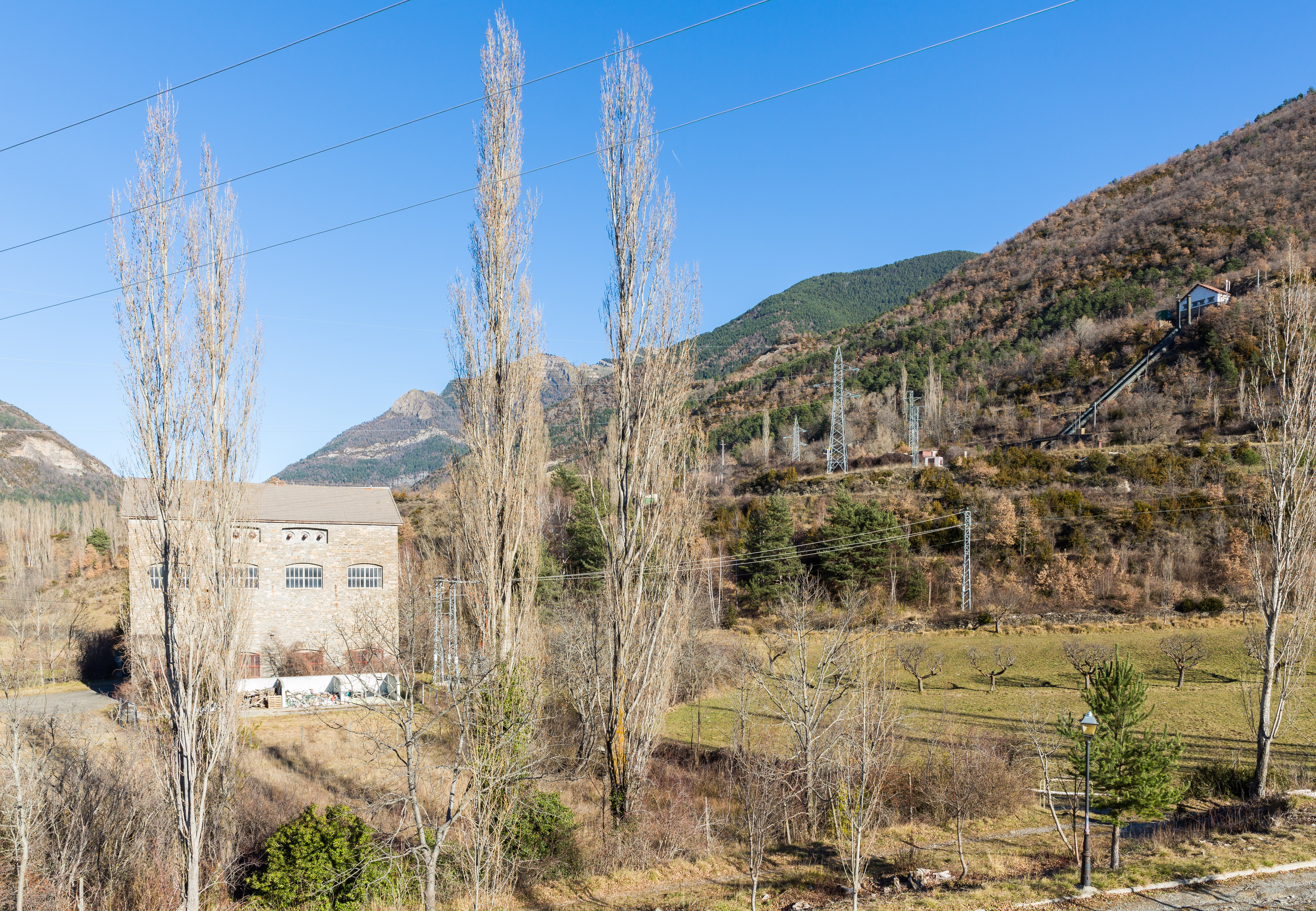 Pyrenean Museum of Electricity, Biescas, Huesca, Spain